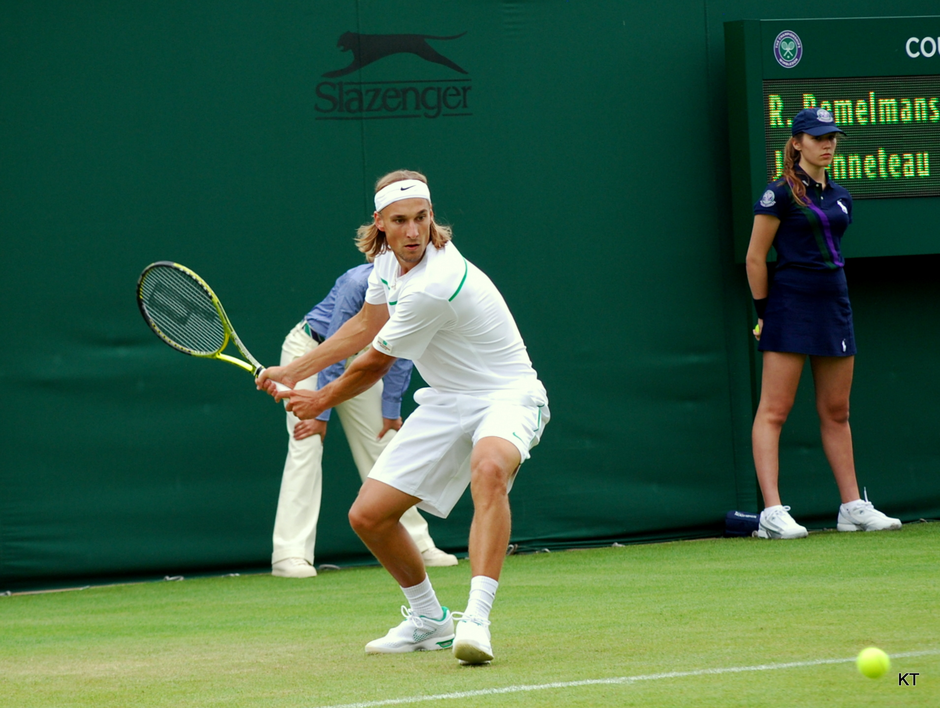 Ruben Bemelmans during his first round match with Julien Benneteau. Benneteau won 6-4, 6-2, 3-6, 4-6, 6-1. Day 1 of Wimbledon 2011.